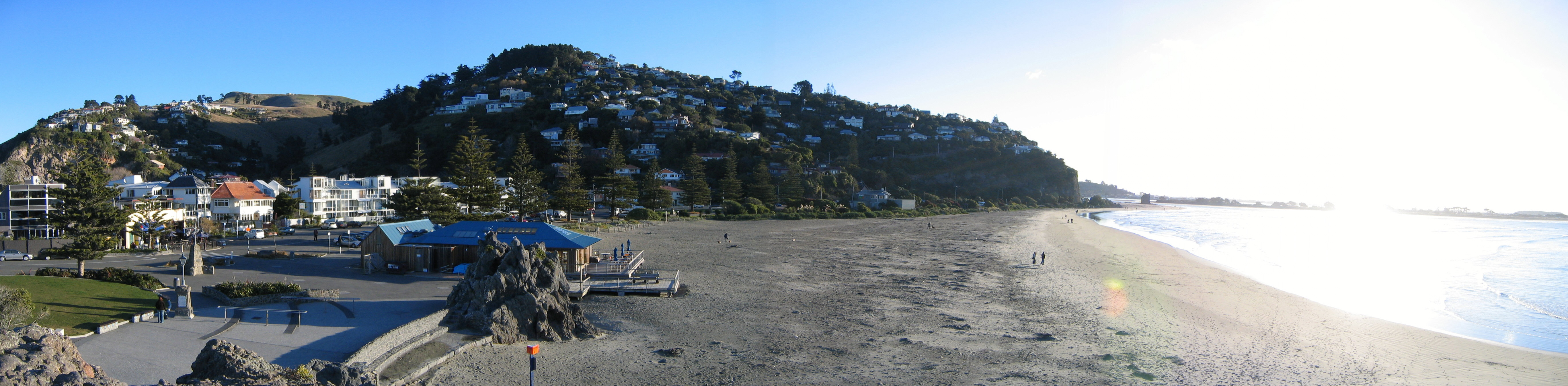 The beach from Cave Rock (Tuawera), Sumner, Christchurch, New Zealand.